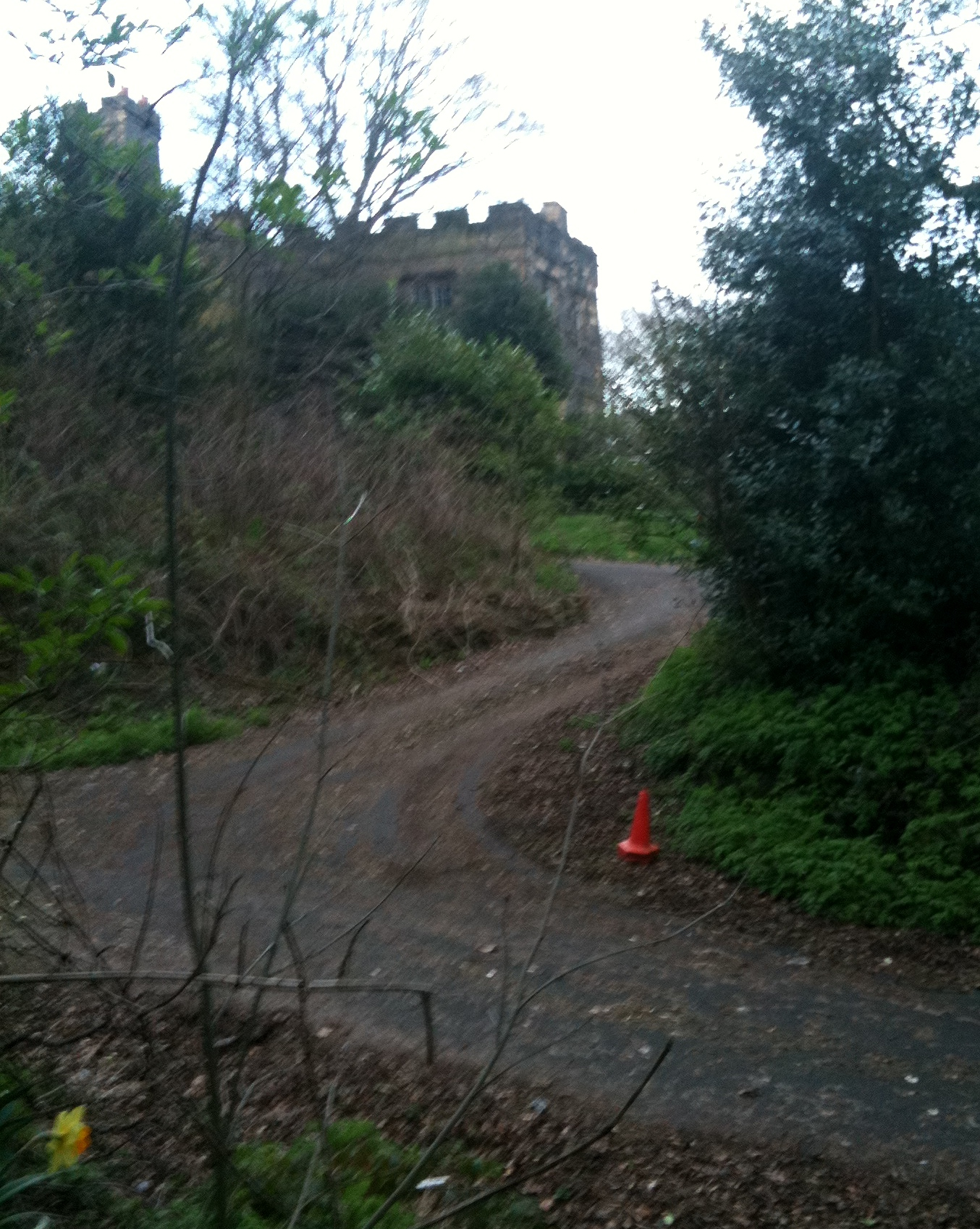 The Mitre, also known as Benwell Towers, in Benwell, Newcastle upon Tyne. View of the building is now obstructed to the public by fencing and housing.